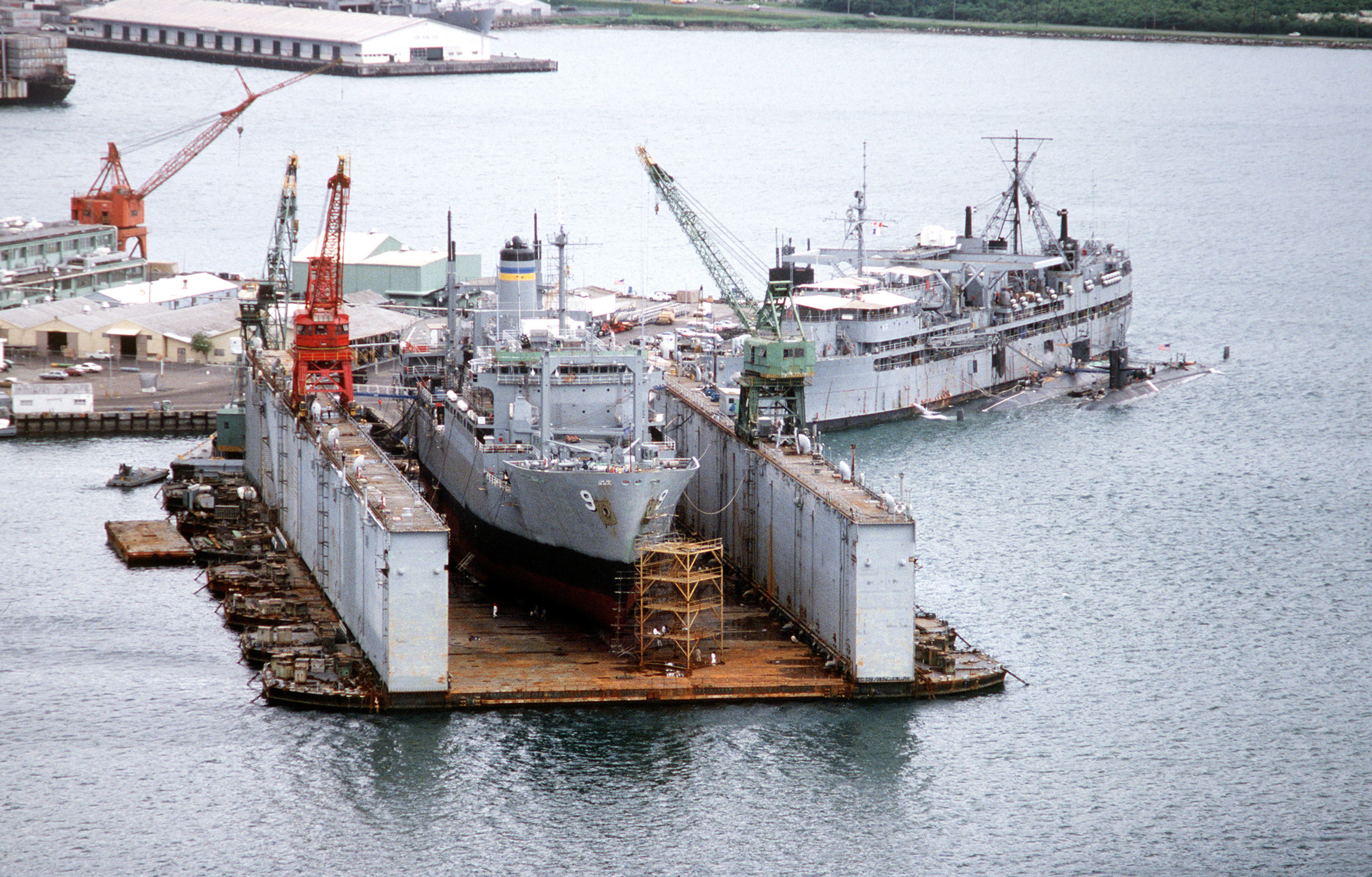 Original, USN provided, caption: The combat stores ship USNS SPICA (T-AFS-9) rests on blocks in the medium auxiliary floating dry dock Resourceful (AFDM-5). The submarine tender USS PORTEUS (AS-19), with two Sturgeon class nuclear-powered attack submarines nested alongside, is on the right. The Naval Supply Depot is in the background.Location: NAVAL STATION, SUBIC BAY, LUZON PHILIPPINES (PHL)